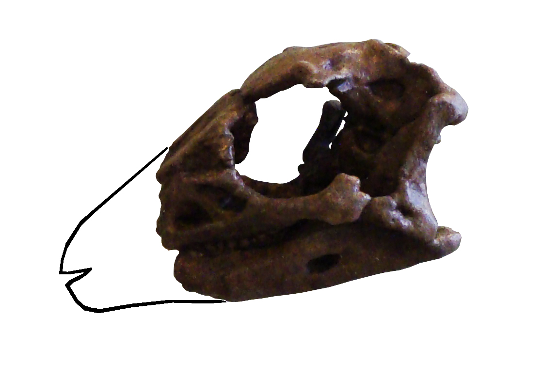 Lesothosaurus diagnosticus skull, in the Royal Belgian Institute of Natural Sciences.